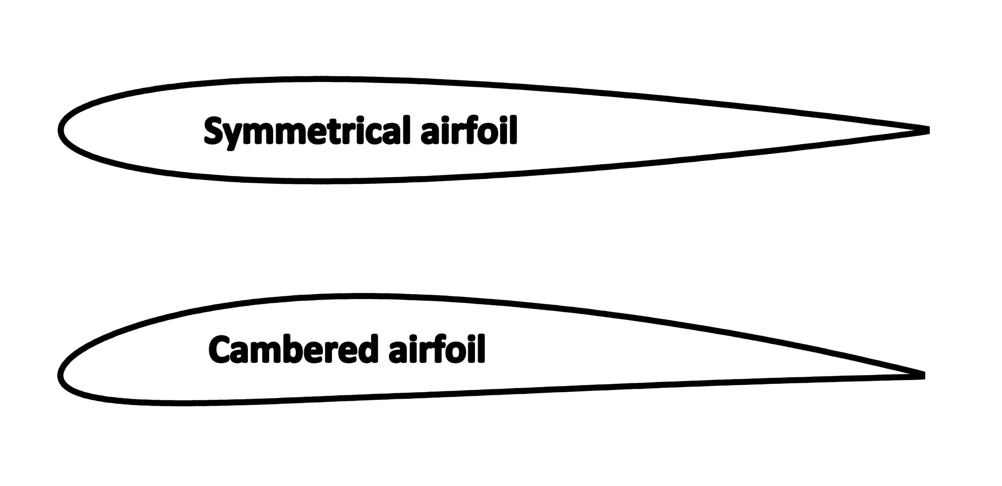 Drawings comparing a symmetrical airfoil with a cambered airfoil Other information No